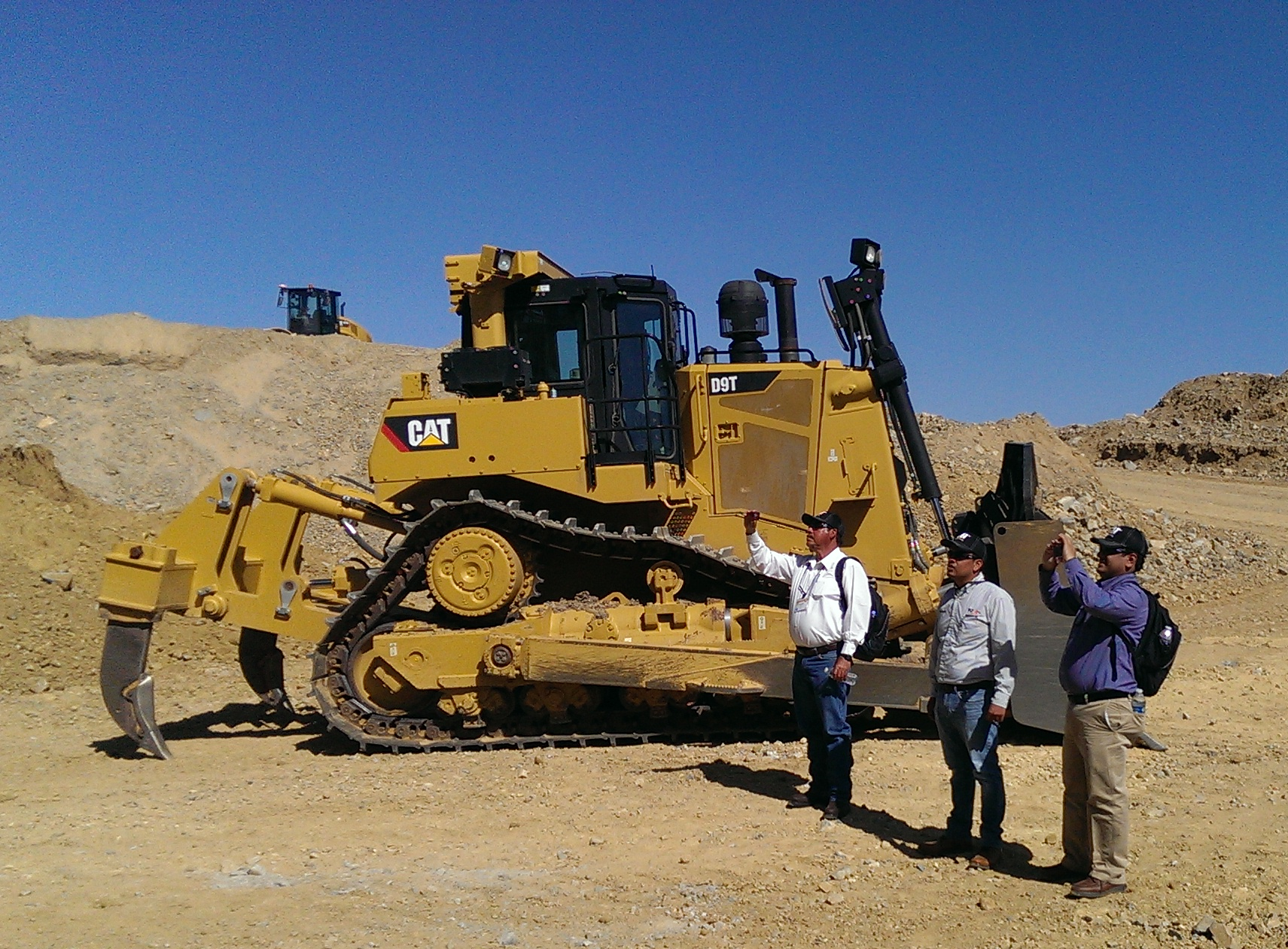 A Caterpillar D9T in a 6,500 acre facility used for testing a variety of mining equipment.